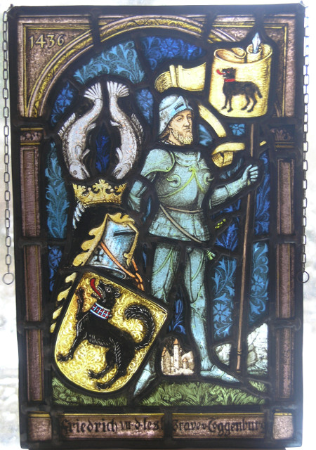 Stained glass window of Frederick VII of Toggenburg (Historicism)